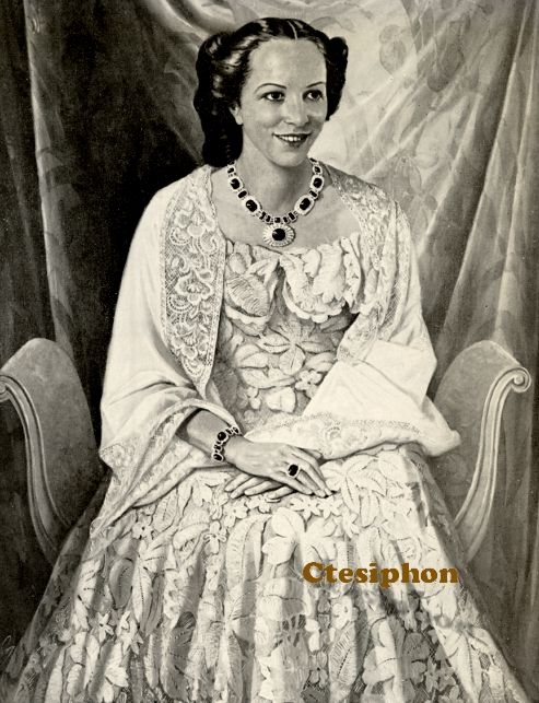 Queen Aliya of Iraq